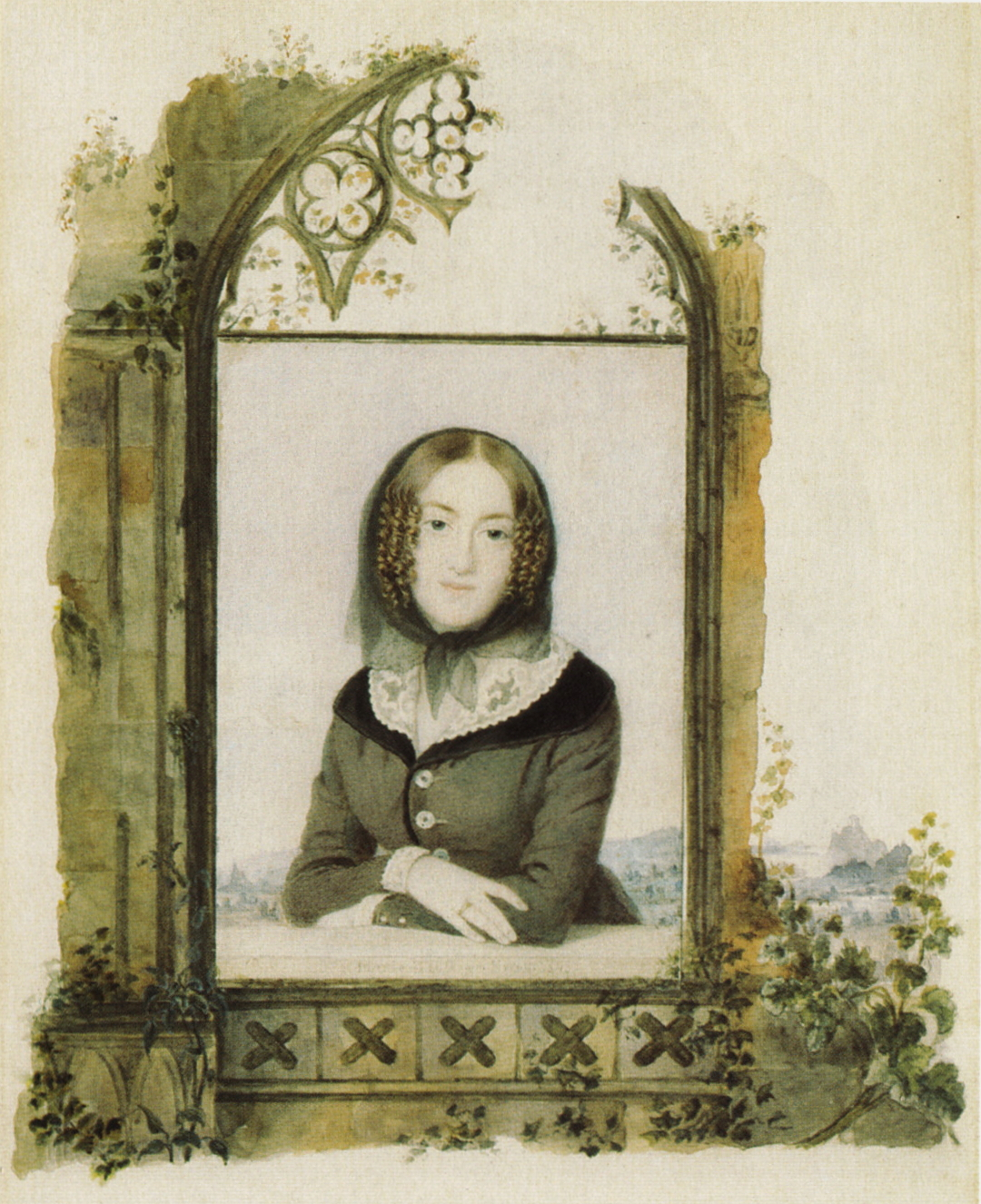 Self-portrait Marie Krafft. Signed Marie Troll geb. Krafft and dated. Collection: Wien Museum, Inv.Nr. 102.579